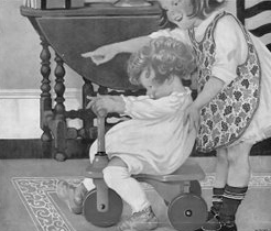 Sarah Stilwell Weber, Kiddie Kar, 1919, cropped